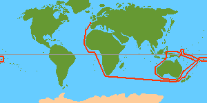 Journey of Joseph-Antoine Raymond de Bruny d'Entrecasteaux 1791 - 1793